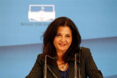 Iwanna Kontouli, greek politician